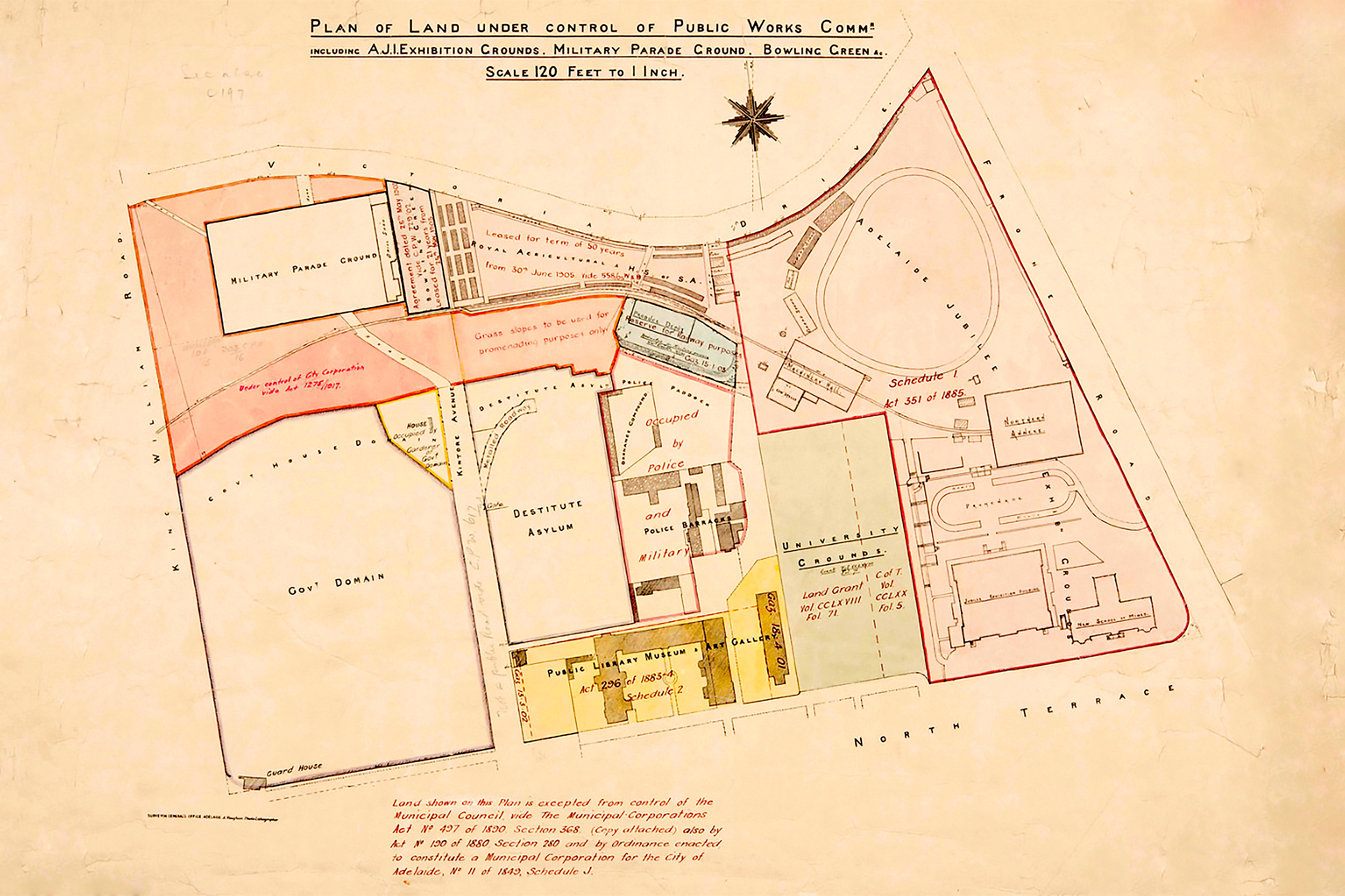 The plan, titled "Plan of land under control of Public Works Commissioner, including A.J.I. [Adelaide Jubilee International] Exhibition grounds, military parade ground, bowling green etc.", covers the land in Adelaide, South Australia, bounded by North Terrace, King William Road, From Road and Victoria Drive. There are various annotations of land use, the last of which is dated June 1905. The area titled "Adelaide Jubilee Exhibition Grounds" was established for the exhibition of 1887.